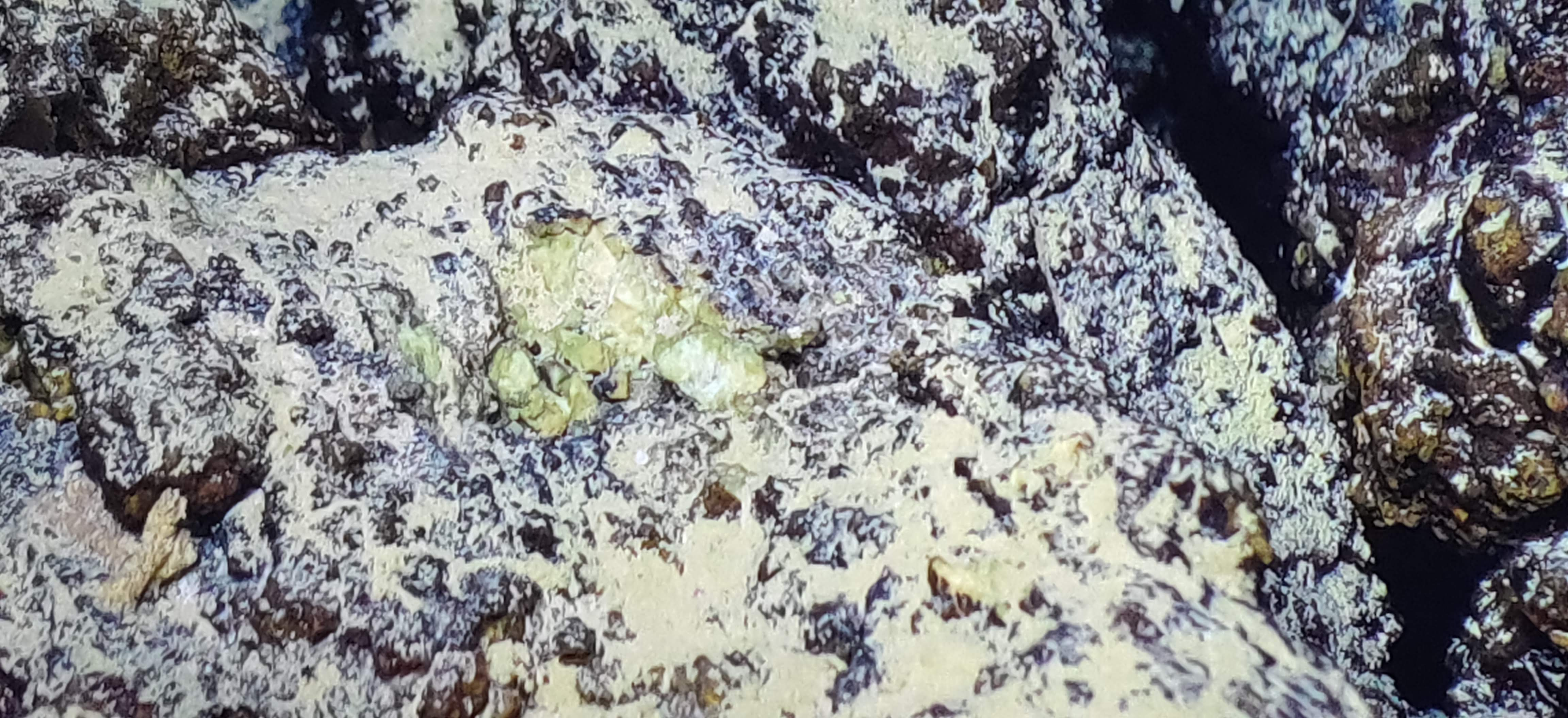 Olivine minerals, characterized by their light-green appearance, at the Von Damm vent field among sediment-coated rock.